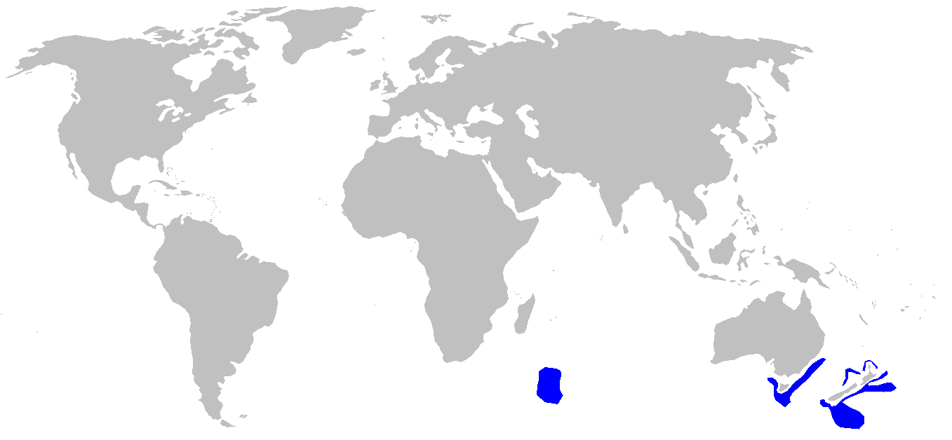 Distribution map for Proscymnodon plunketi